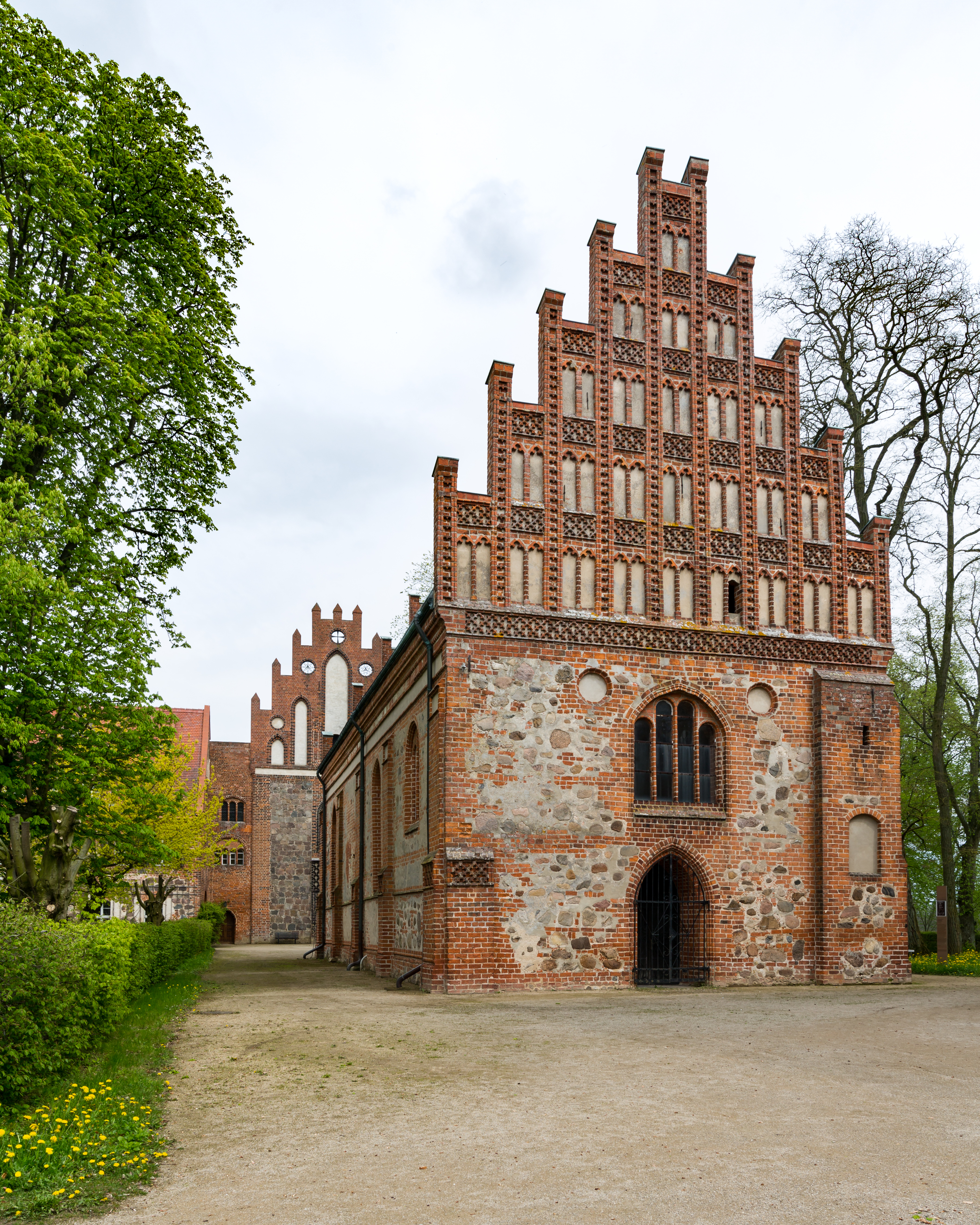 Heiliggrabkapelle, Monastery Endowment of the Holy Grave, Heiligengrabe, Brandenburg, Germany